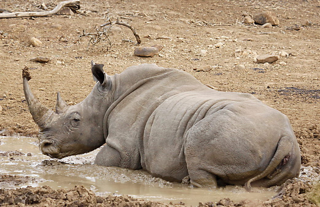 White rhinoceros or square-lipped rhinoceros, Ceratotherium simum.